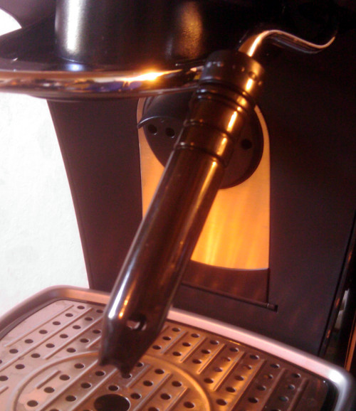 Pannarello on a Cafissimo coffee machine